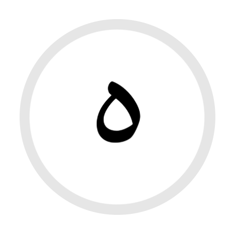 HS Letter (arabic alphabet)